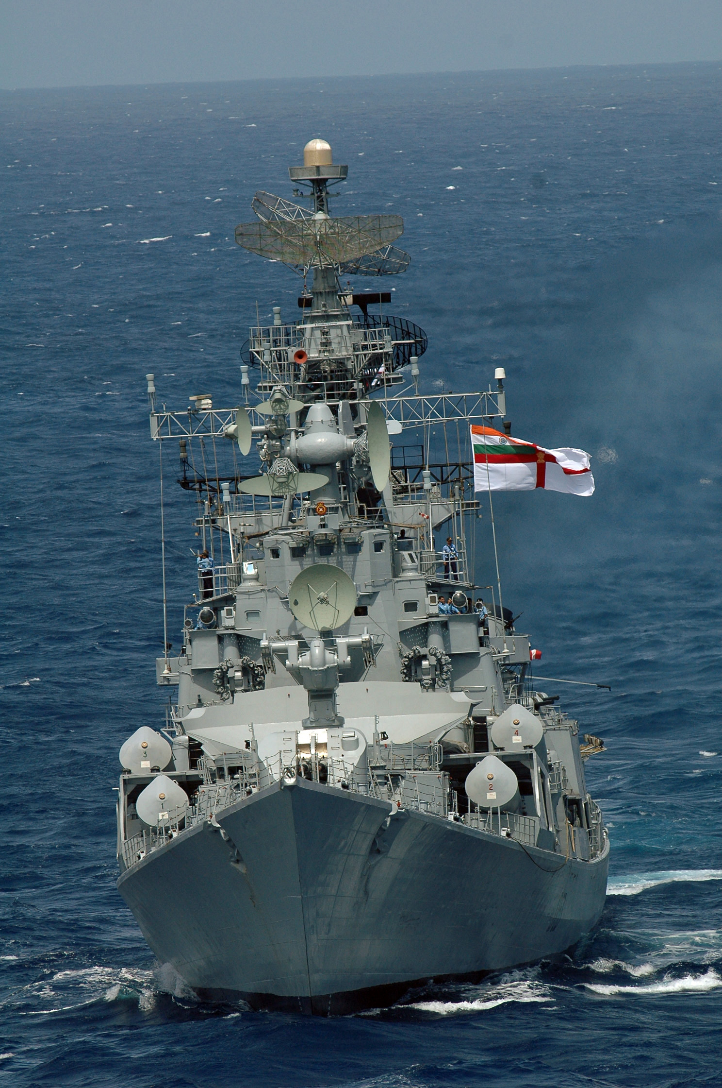 070905-N-1730J-163 INDIAN OCEAN (Sept. 5, 2007) - An Indian Navy frigate takes position during Malabar 2007, an exercise involving Kitty Hawk and Nimitz Carrier Strike Group and ships of the navies of Australia, India, Japan, and the Republic of Singapore. Malabar 2007 is designed to increase interoperability among the navies and to develop common procedures for maritime security operations. U.S. Navy photo by Mass Communication Specialist 3rd Class Jason A. Johnston (RELEASED)